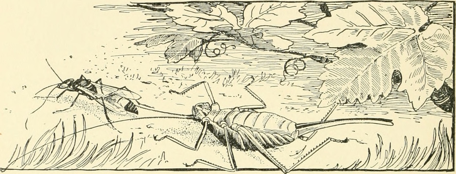 Original legend : A solitary wasp, Sphex occitanica, dragging a large wingless locustid (Ephippiger) to nest. After Fabre (natural size) According to Fauna Europa Sphex occitanica Lepeletier & Serville, 1828 is now Palmodes occitanicus (Lepeletier & Serville, 1828)